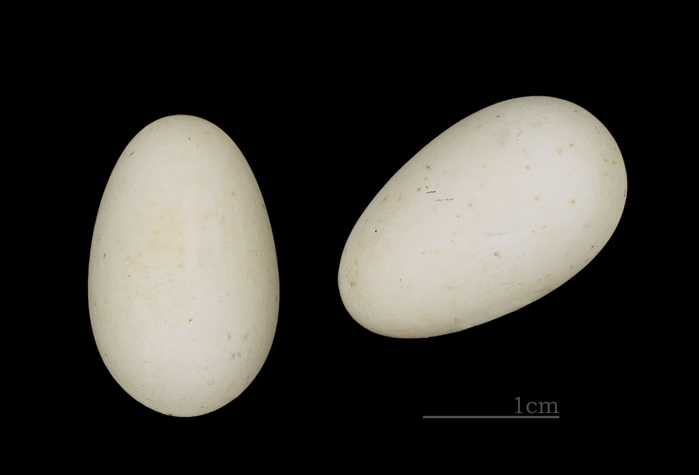 Egg of Little Swift . Collection of René de Naurois/Jacques Perrin de Brichambaut.